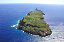 Aerial view of Farallon de Medinilla, Northern Mariana Islands